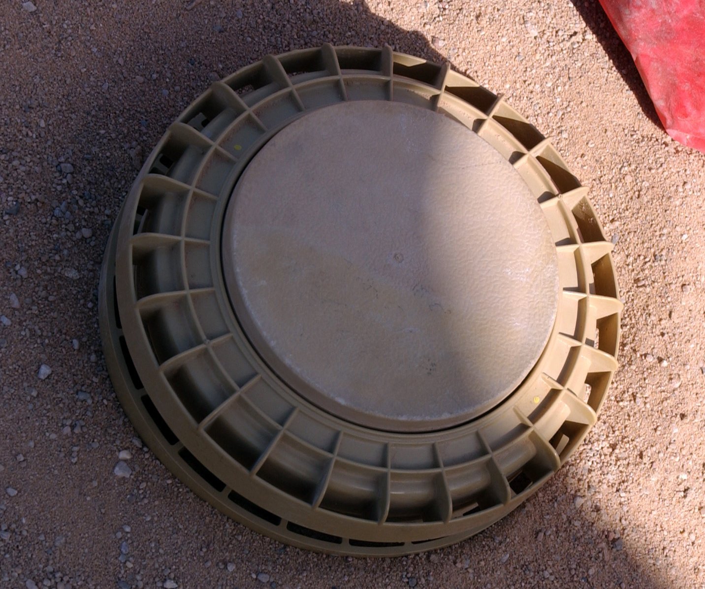 An Italian VS-2.2 landmine captured during a raid on a safe house in Iraq in September of 2004.